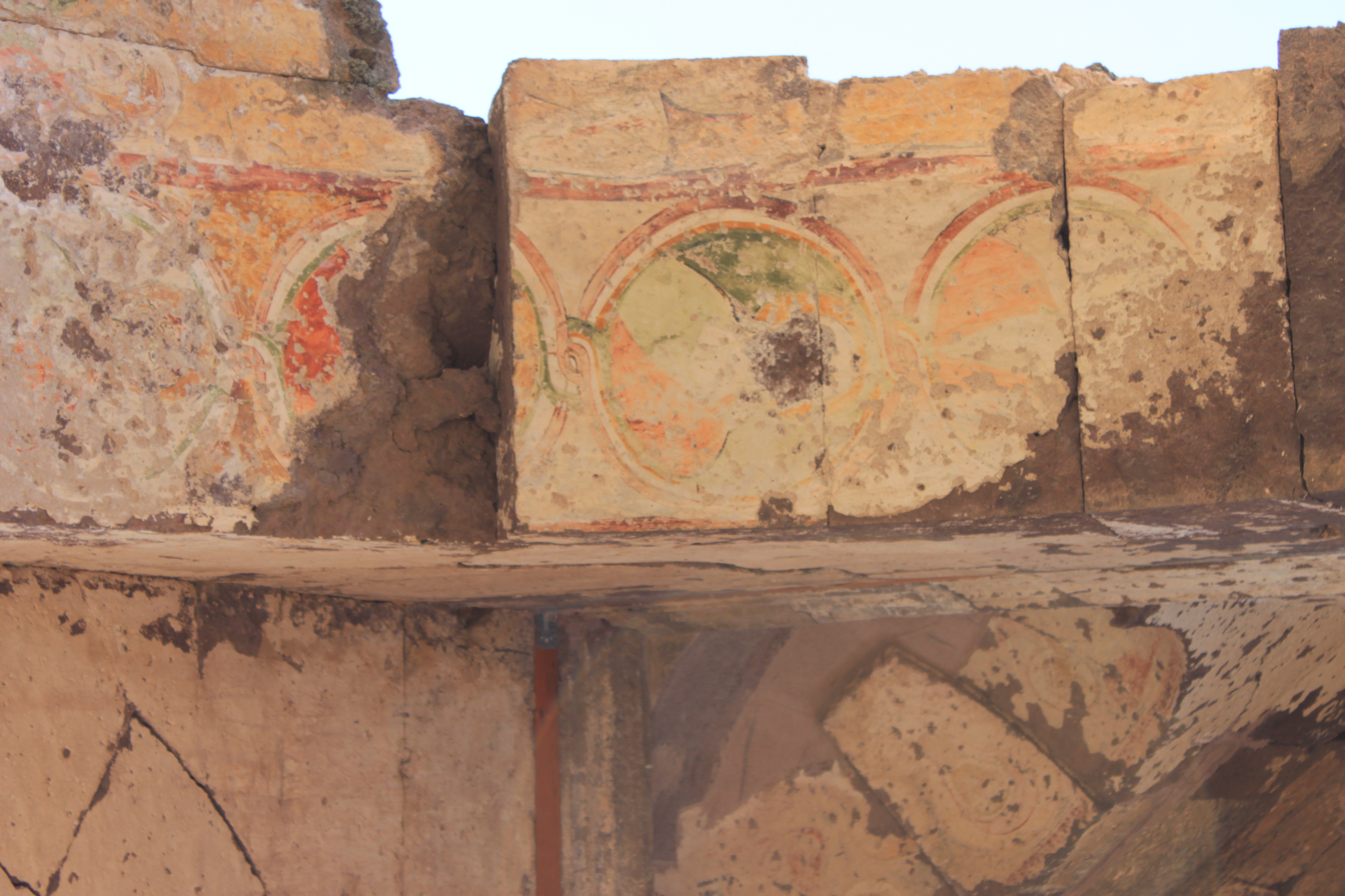 Fresco inside the Kısıl Kilise ("red church") in Sivrihisar, Güzelyurt (Aksaray)